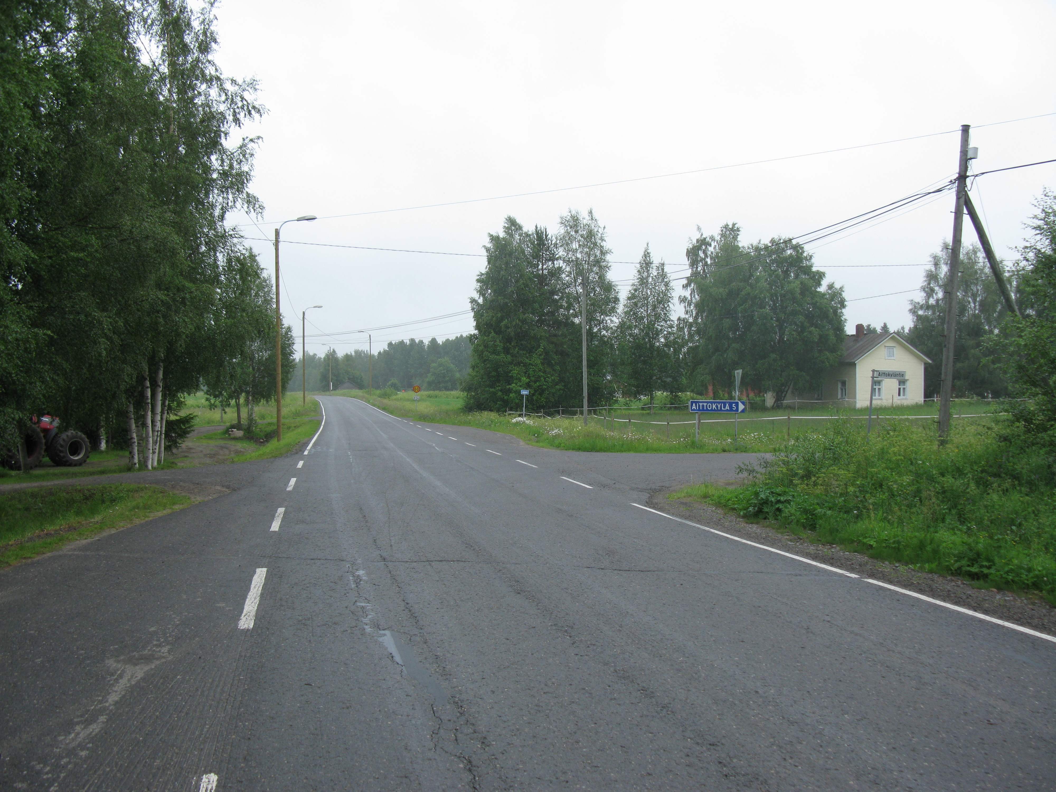 Puolangantie road (regional road 836) in the village of Vepsä in Ylikiiminki, Finland